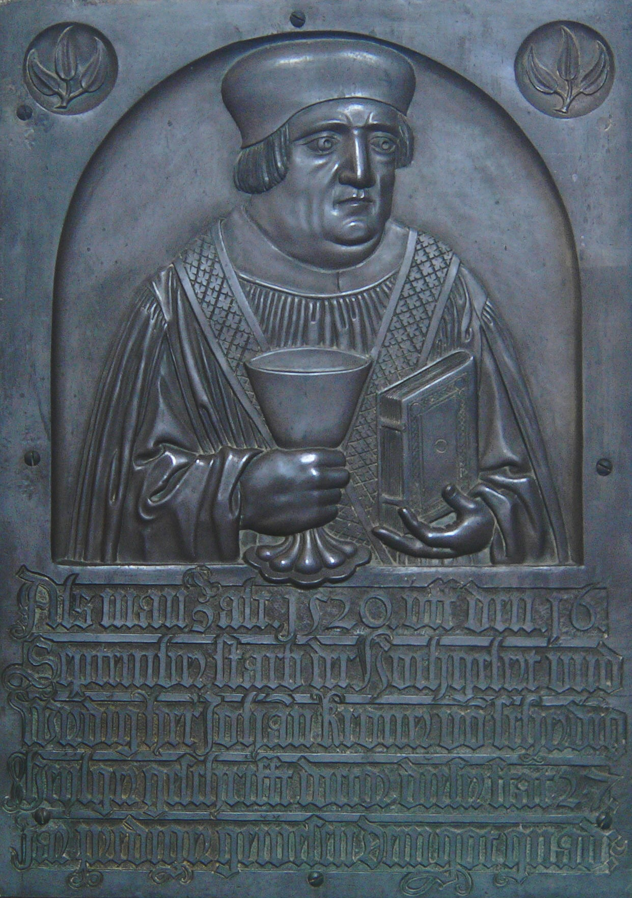 Epitaph of Johan Kroner (1520) in the Church Kilianskirche of Heilbronn, Germany